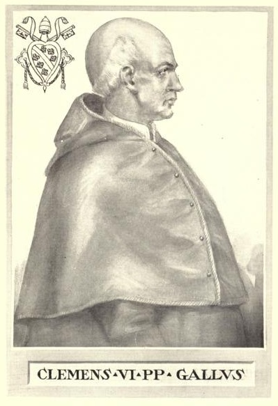 This illustration is from The Lives and Times of the Popes by Chevalier Artaud de Montor, New York: The Catholic Publication Society of America, 1911. It was originally published in 1842.